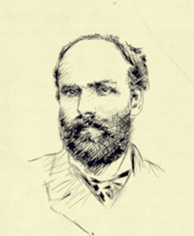 Portrait of Oscar Chilesotti, musicologist (1848-1916).